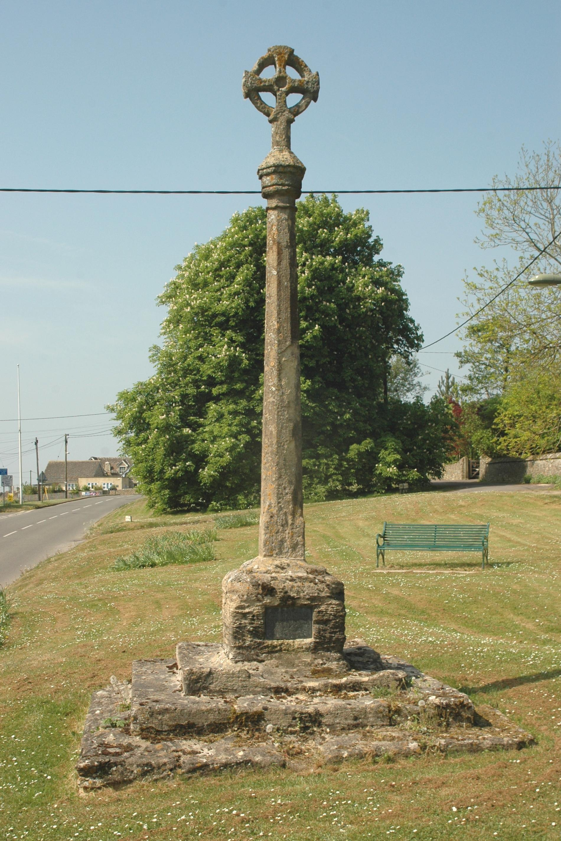 Stone cross in Leafield, Oxfordshire: Gothic Revival shaft and top on late Mediæval steps and base